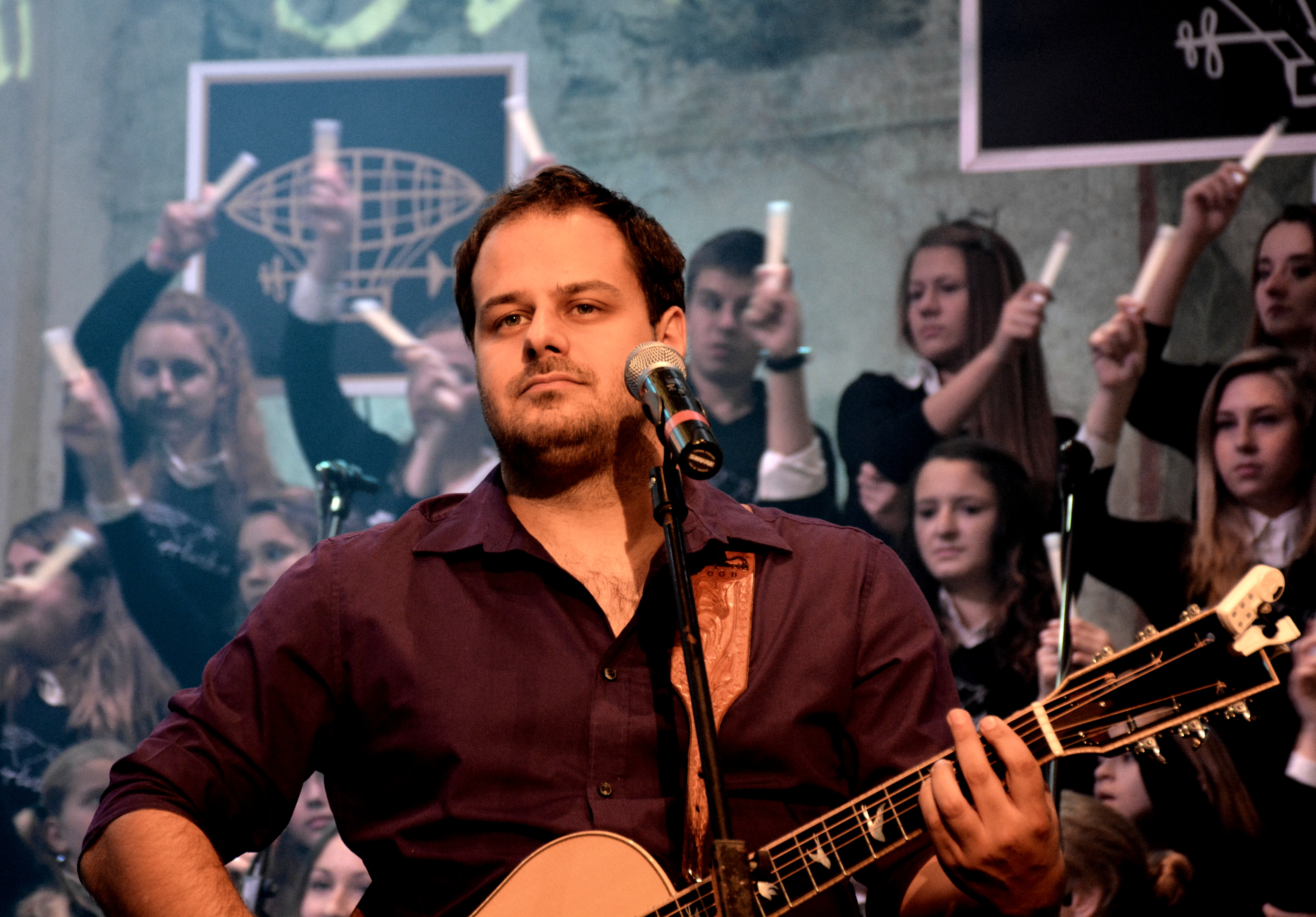 Xindl X, Czech vocalist